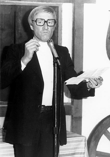 A show in a school, Brussels 1975